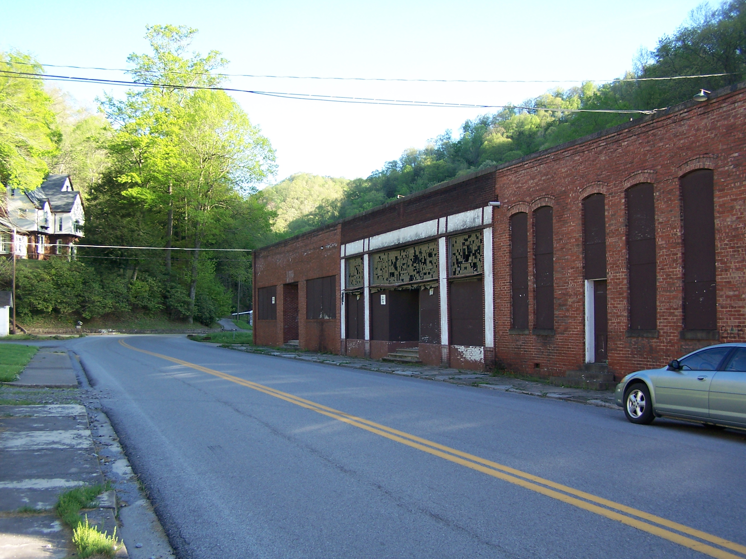 Photo of Carter Coal Company Store in Coalwood, West Virginia. Building demolished in March 2008.